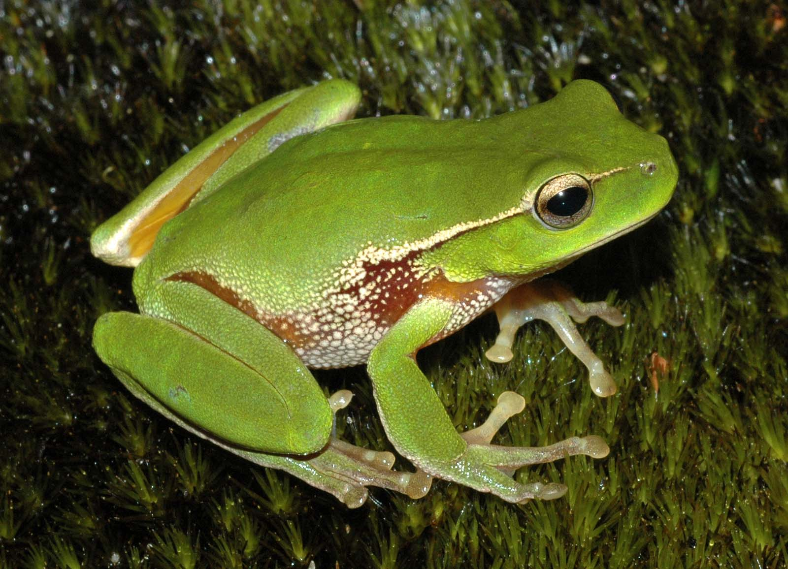 A Leaf Green Tree Frog, (Litoria phyllochroa), Darkes Forest NSW, Australia.